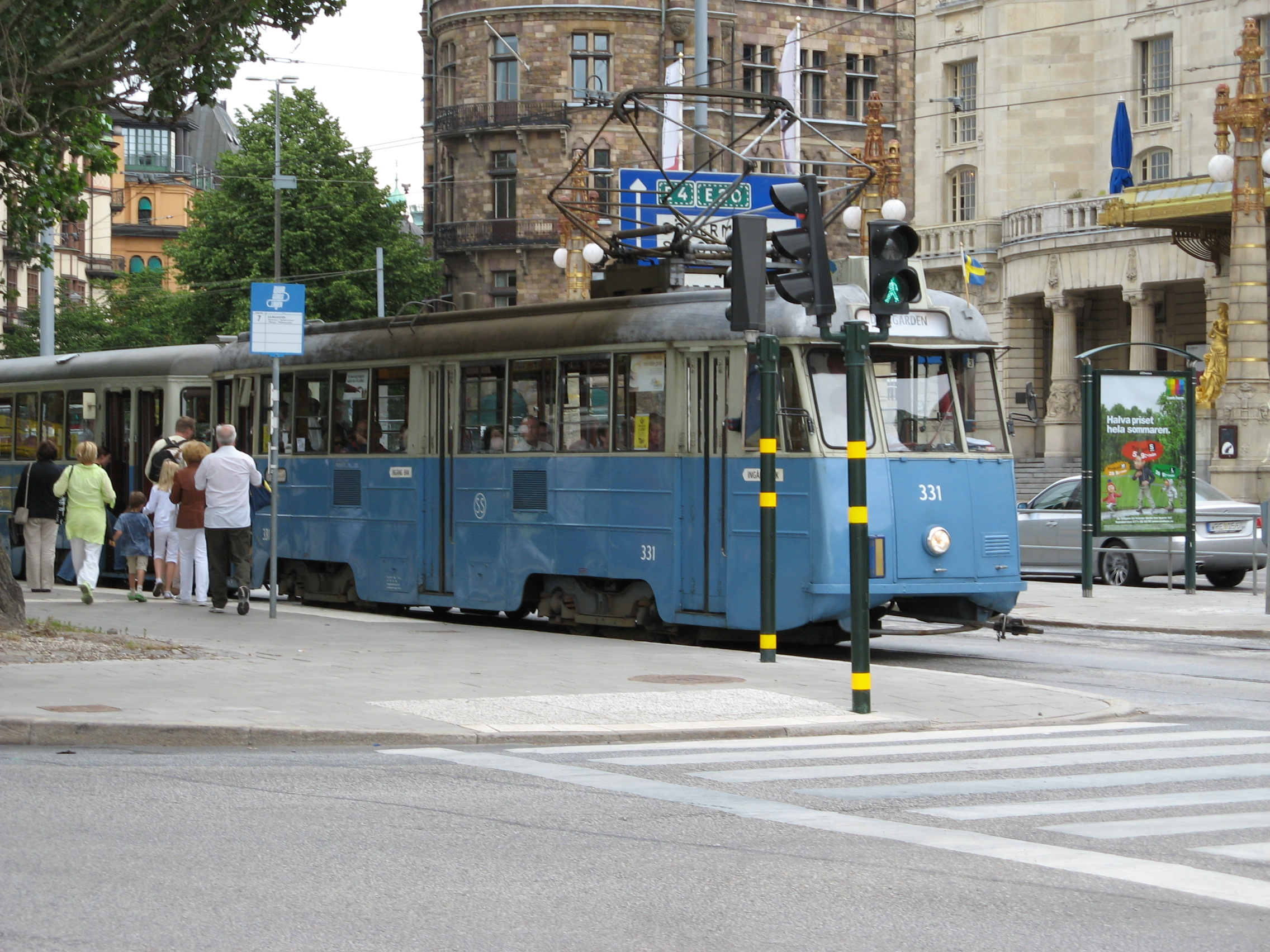 Tramway on line SS7, Stockholm, Sweden